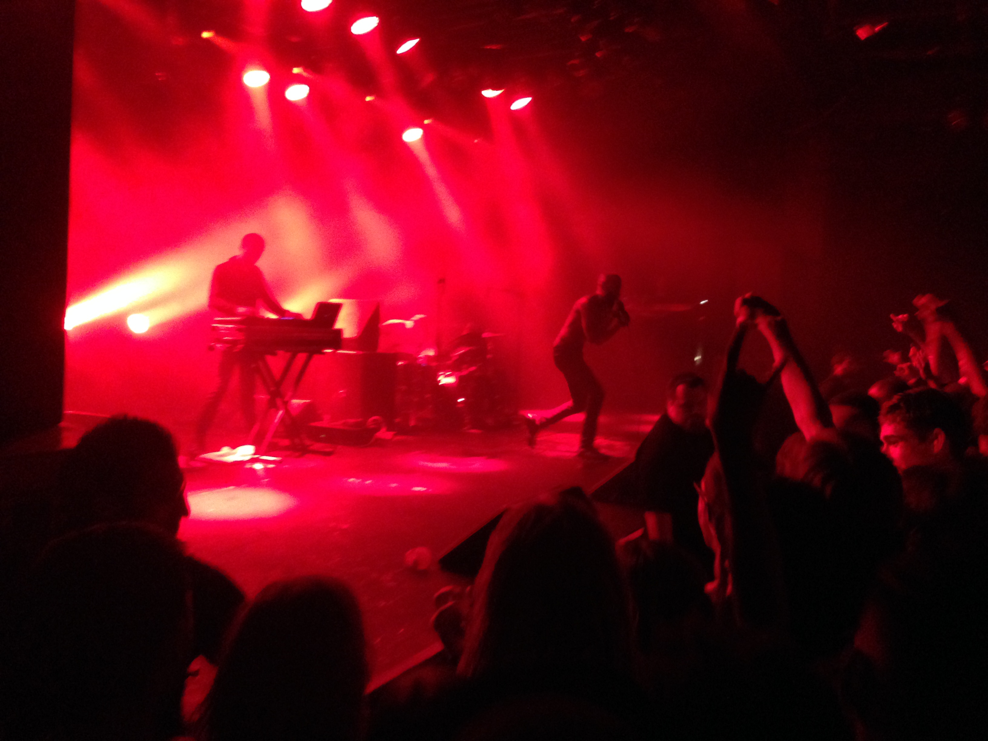 Death Grips performing in Vancouver, British Columbia (2015)